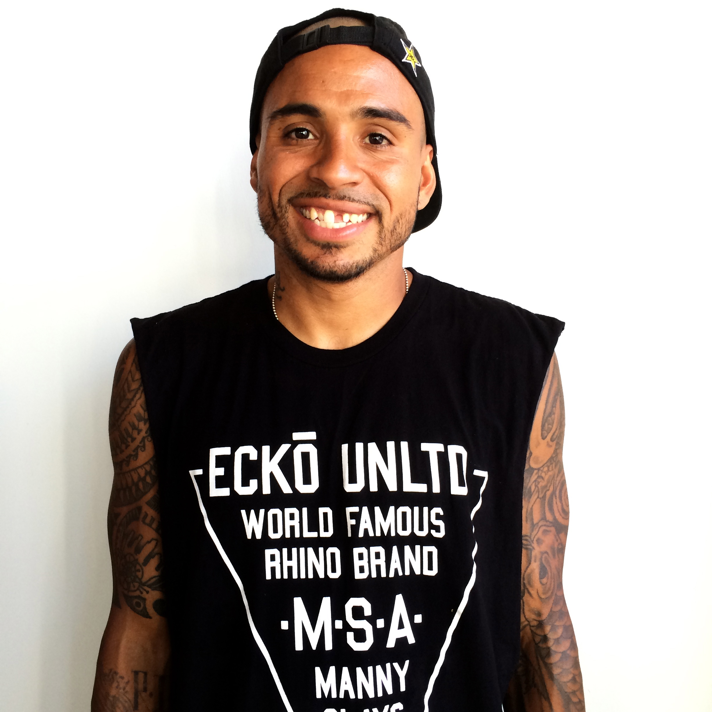 Portrait of professional skateboarder Manny Santiago on December 10th, 2014.